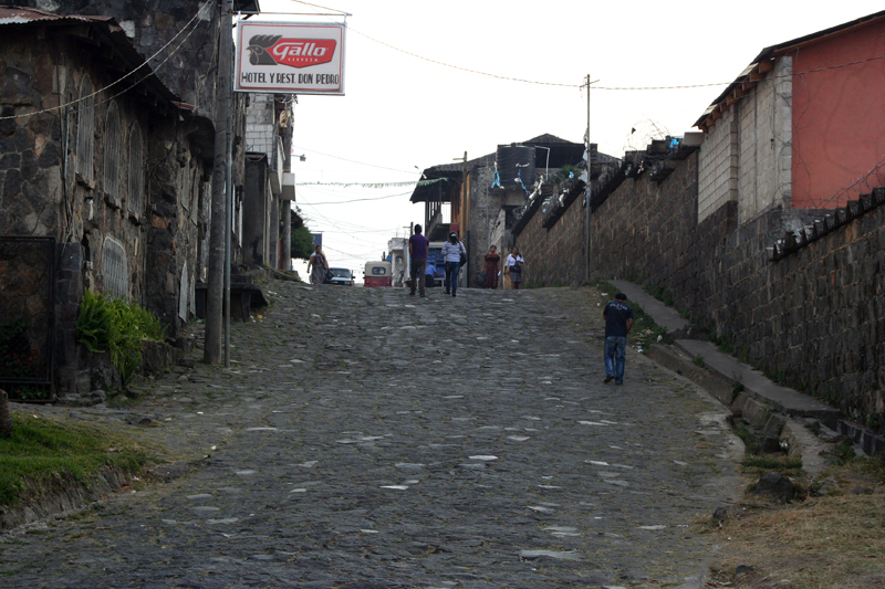 Street view at San Lucas Tolimán